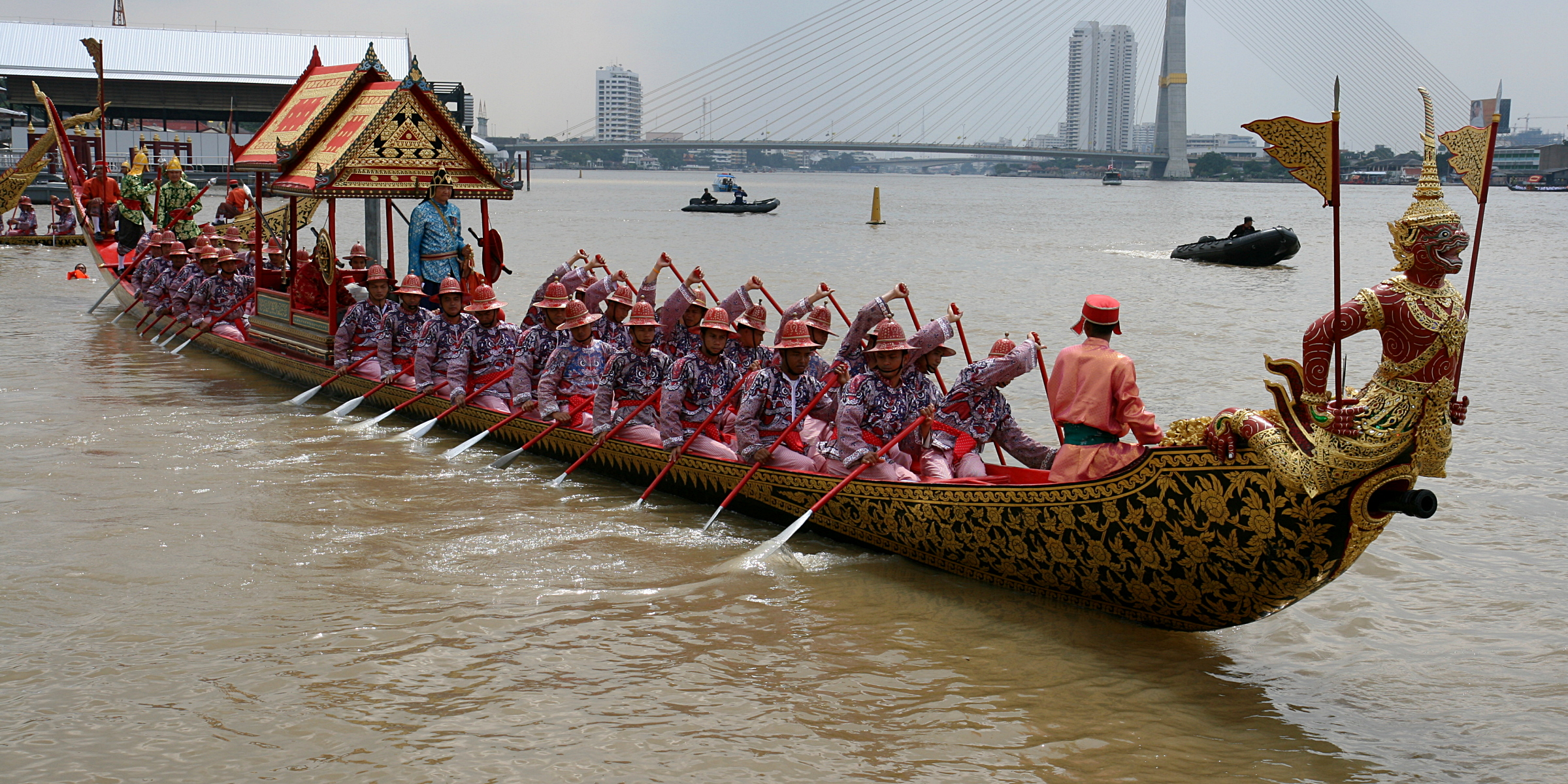 Escort barge Sukrip Khrong Mueang leaving Wat Rachathiwat pier for dress rehearsal of Royal Barge Procession. They were guarded by boats from Royal Thai Navy seen behind the barge. The large white tent on the left is the place for barge storage when they are not in use.